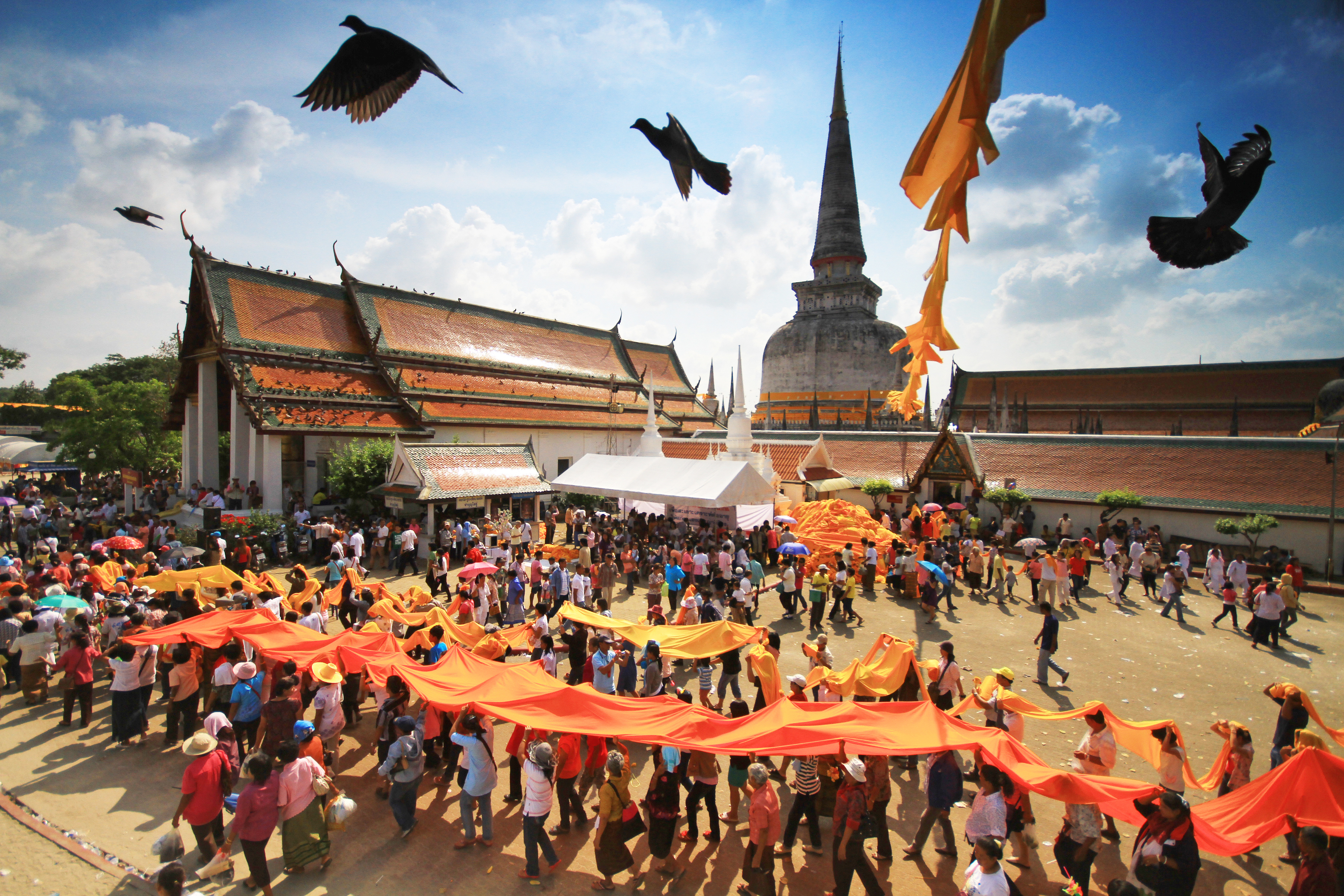 A procession of Buddhists bearing a long cloth to wrap around the stupa (in the far back) during Hae Pha Khuen That Festival at Wat Phra Maha That Woramahawihan, Nakhon Si Thammarat Province, southern Thailand. The temple is currently on the Tentative List of UNESCO World Heritage Sites.